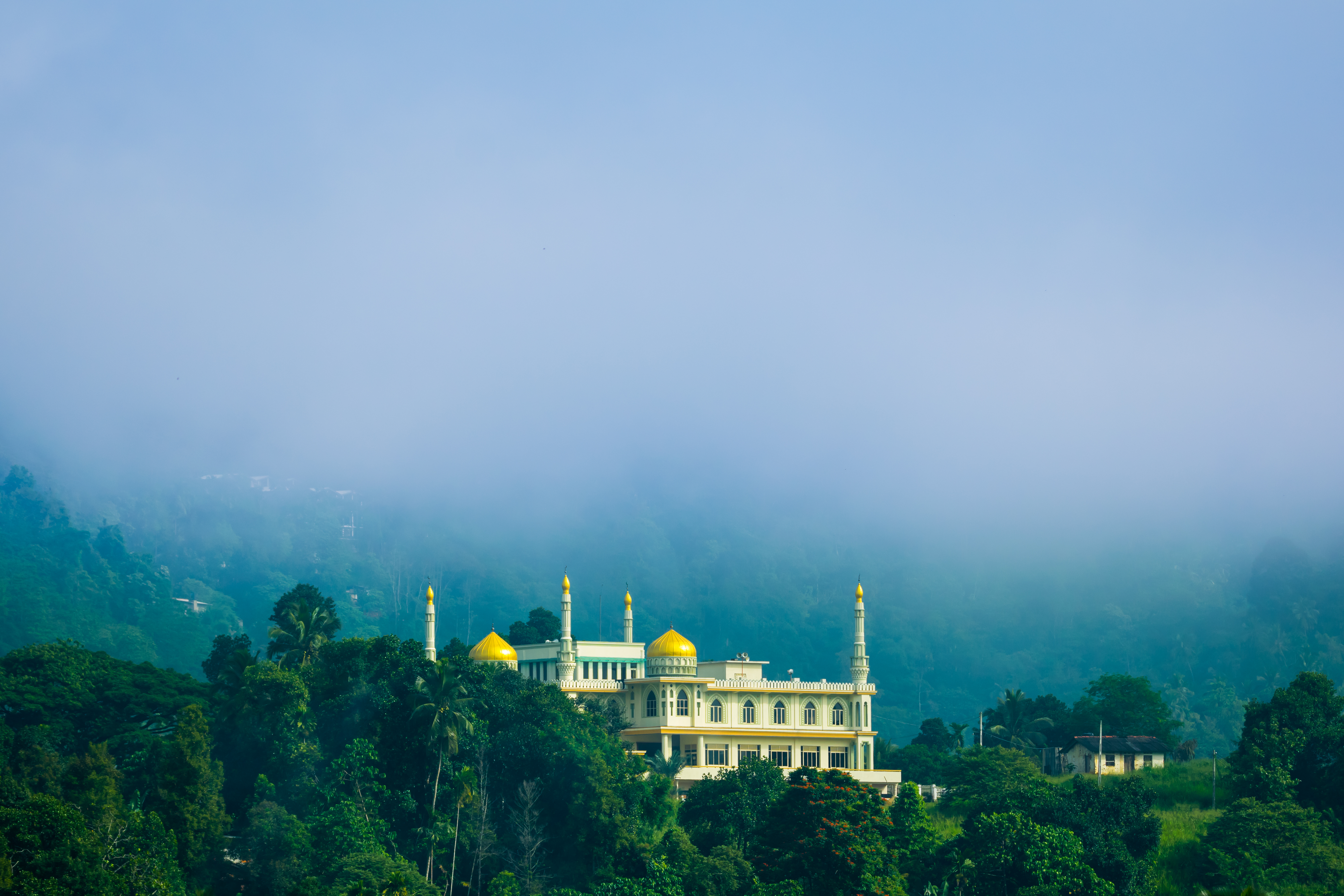 Beautiful masjid on top of the hill